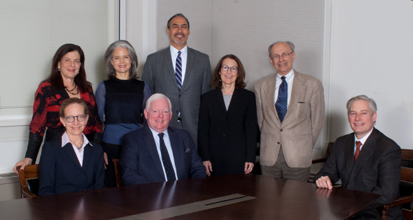 Members of the United States Commission of Fine Arts, an agency of the U.S. federal government, as of February 2015. Standing, left to right: Mia Lehrer, Liza Gilbert, Philip Freelon, Elizabeth K. Meyer, Alex Krieger. Sitting, left to right: Elizabeth Plater-Zyberk, Earl A. Powell III, Thomas Luebke (the Secretary of the Commission, a staff member and chief executive officer of the agency).